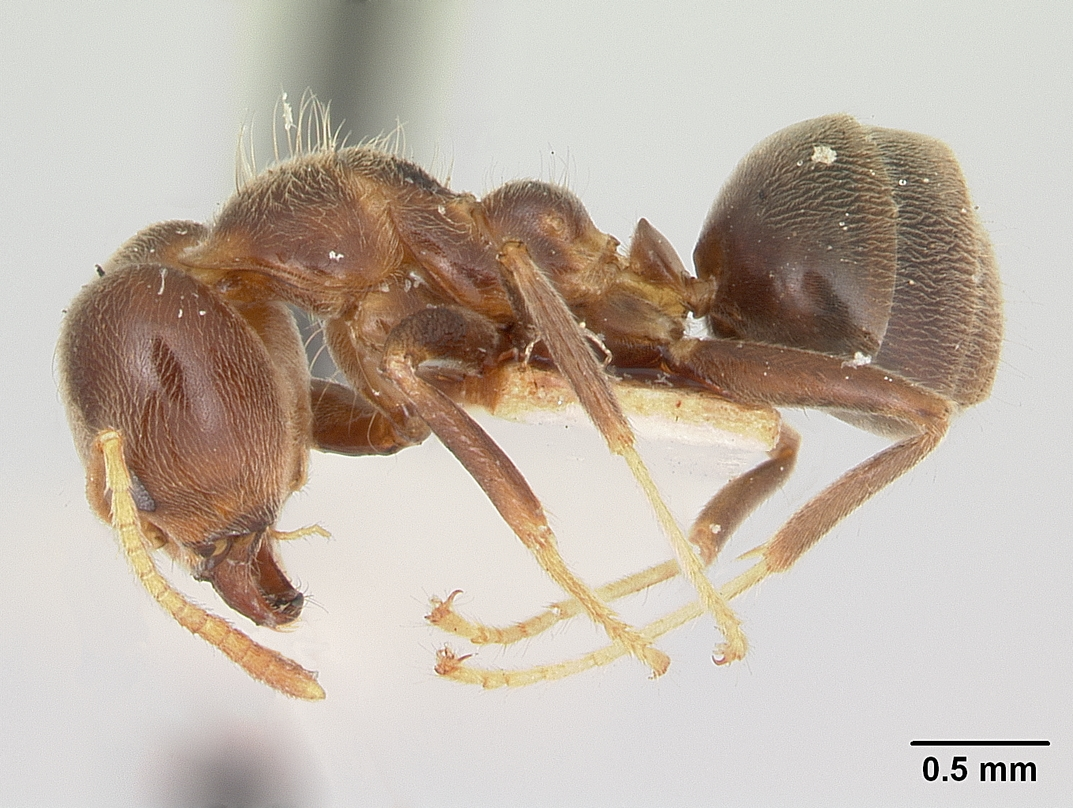 Profile view of ant Philidris brunnea specimen casent0006112.